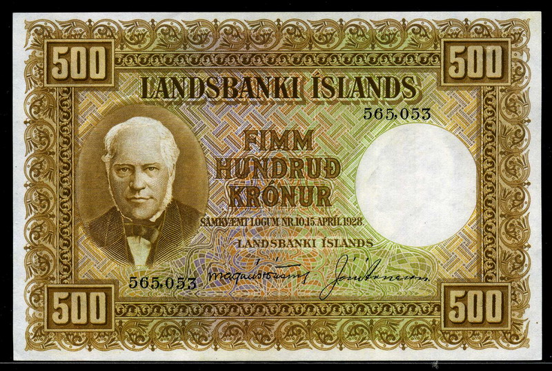 Iceland 500 Kronur banknote of 1928